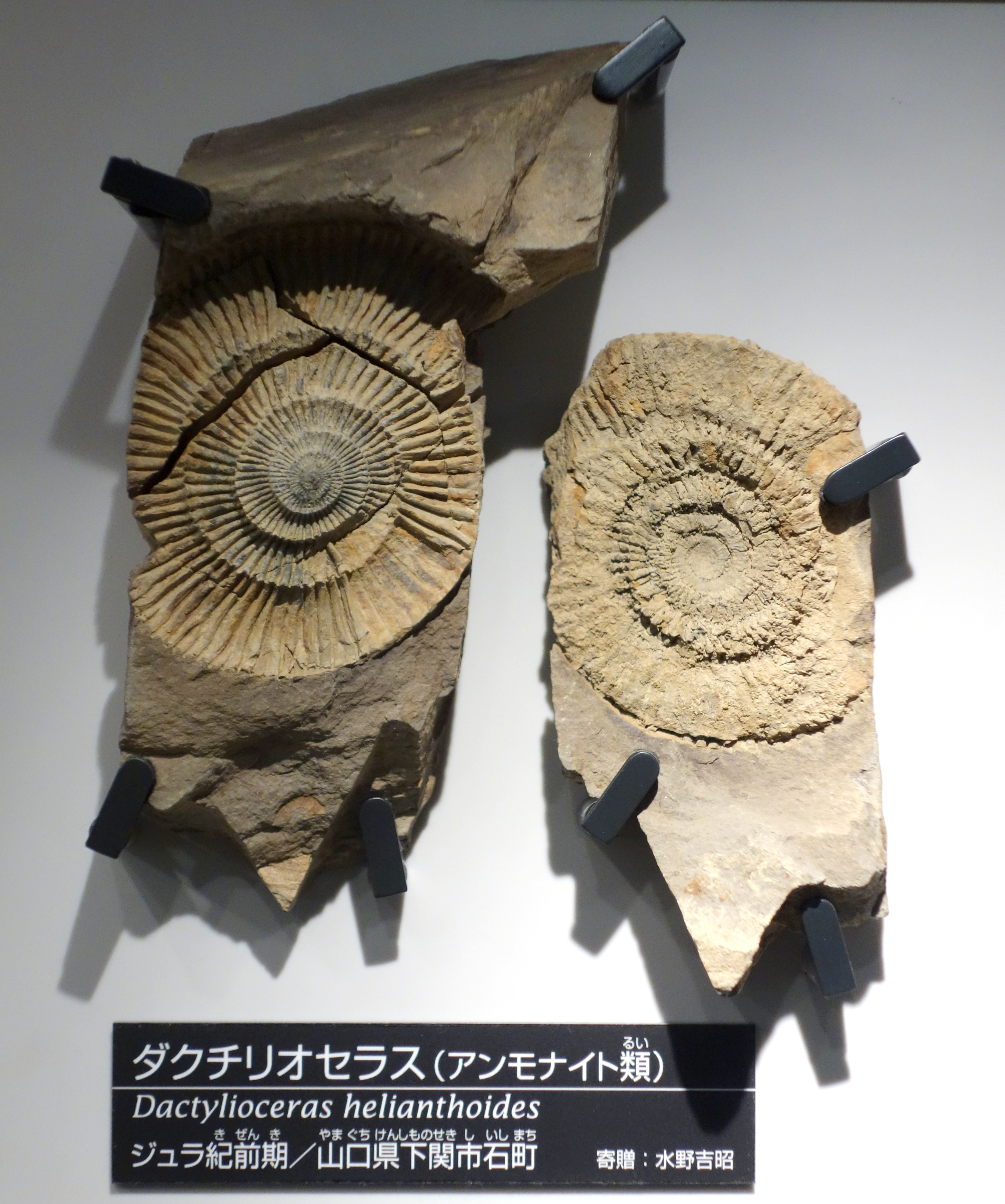 Exhibit in the National Museum of Nature and Science, Tokyo, Japan.